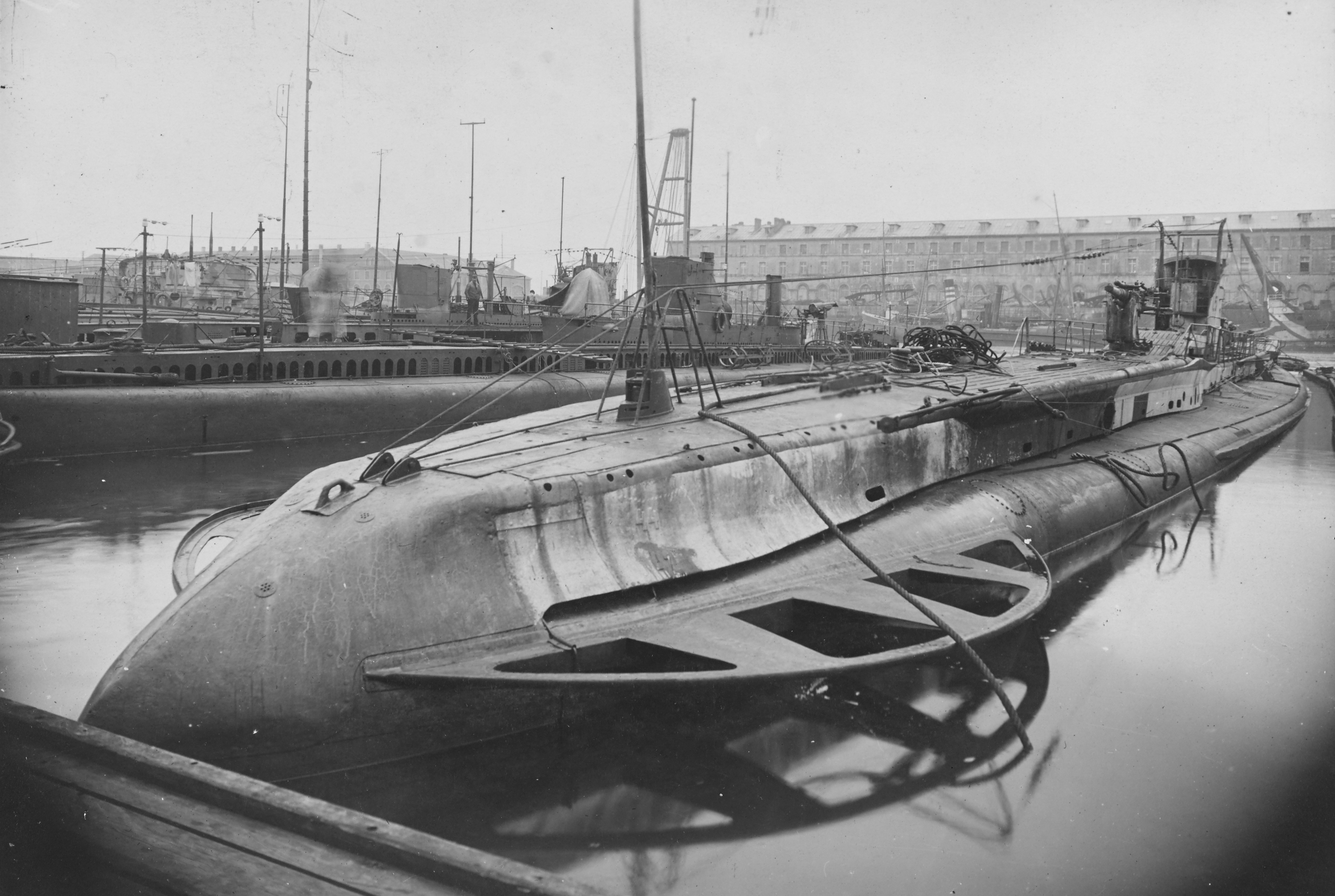 Title: French Submarines at Cherbourg Caption: Circa 1921, the six units right to left are: ex-German U-57 1916-21, PLUVIOSE 1907-22 with funnel, unidentified ex-German unit, BRUMAIRE 1911-30 square sail, ex-German UC-58 1916-21, number partly visible, unidentified German unit.